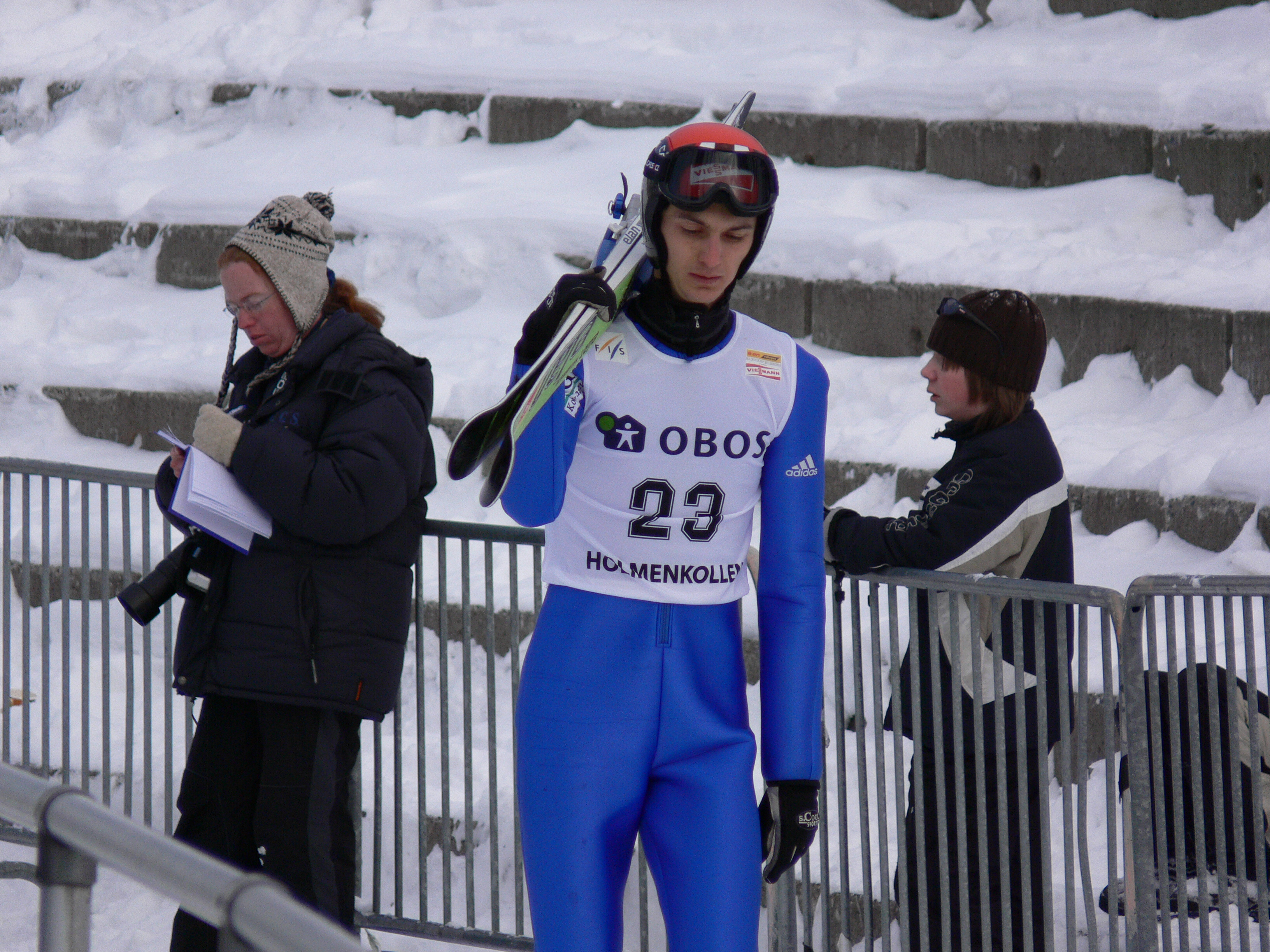 From the 2006 World Cup ski jumping event in Holmenkollen.